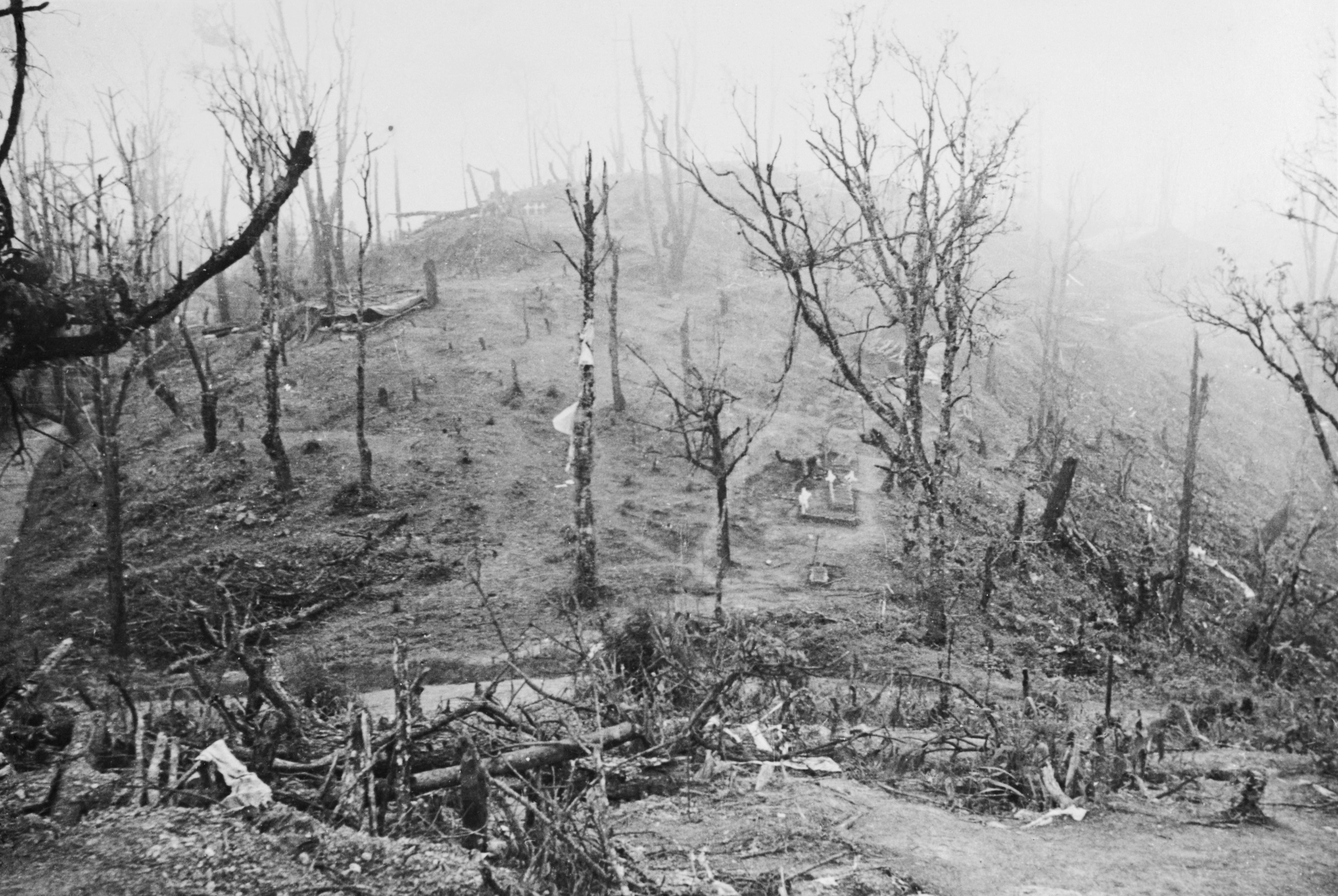 The Battle of Kohima March - July 1944: View of the Garrison Hill battlefield with the British and Japanese positions shown. Garrison Hill was the key to the British defences at Kohima.